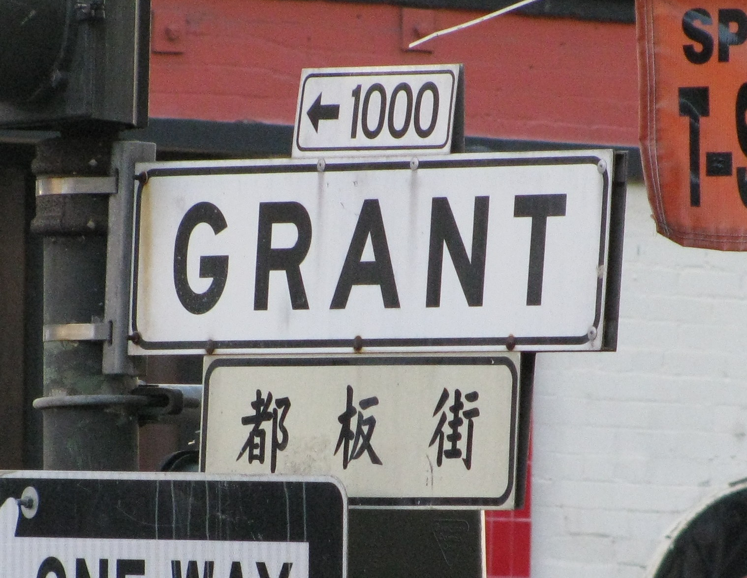 Grant Avenue in San Francisco Chinatown